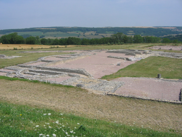 Alise-Sainte-Reine, Bourgogne, France : basilique